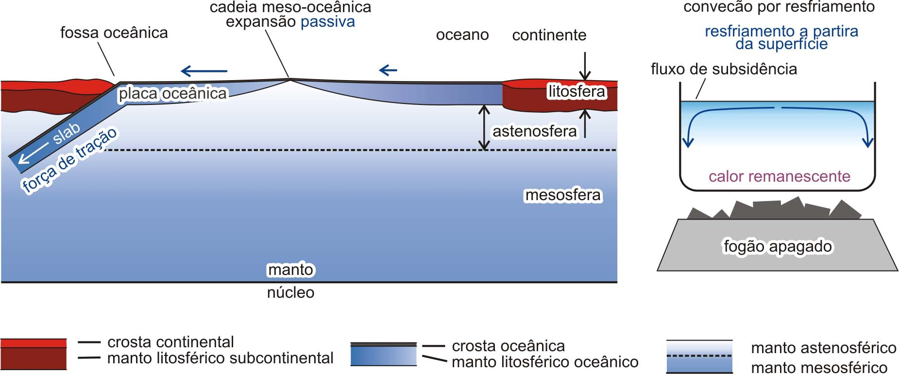 Plate driving force, new model